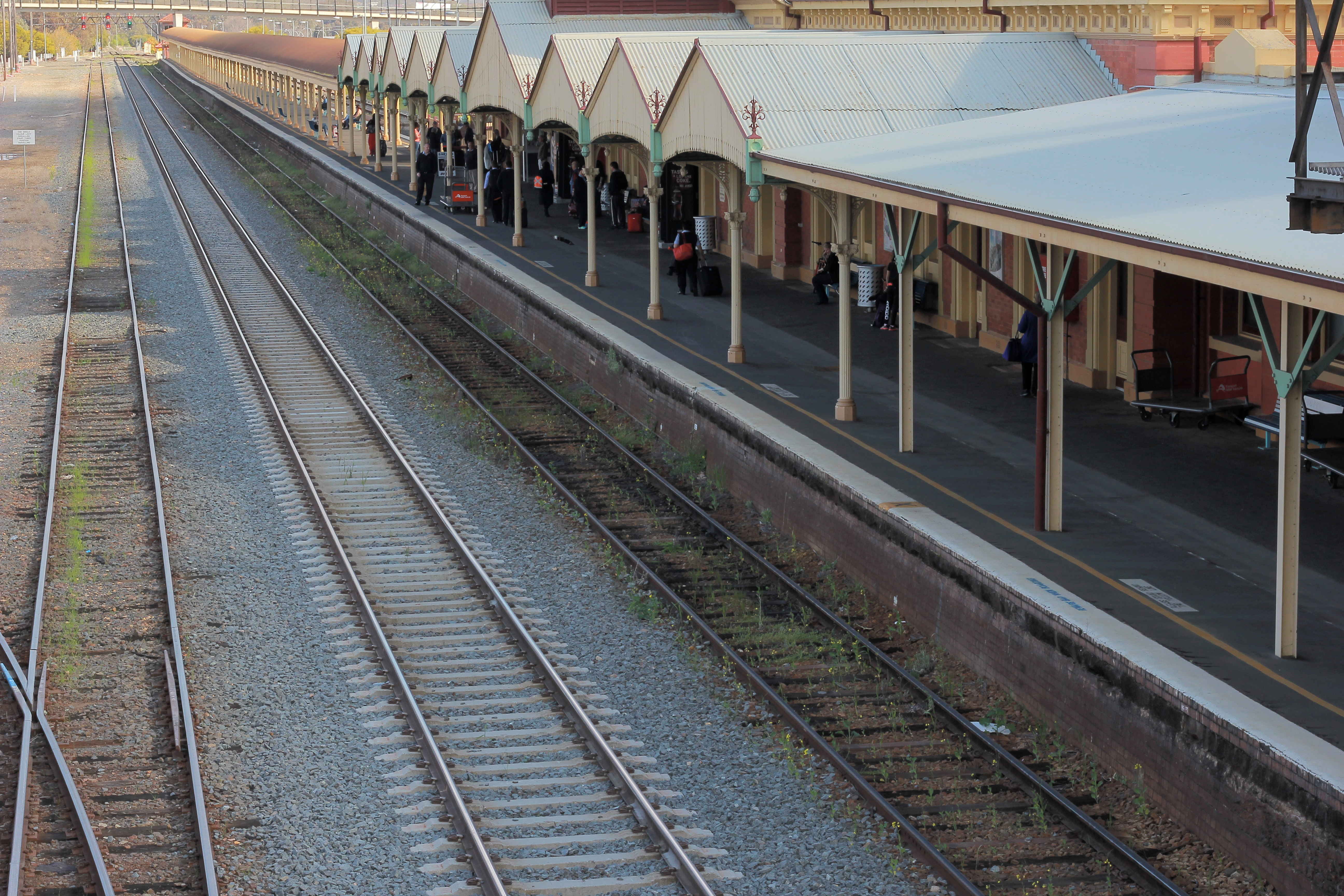 The very lengthy railway station platform at Albury, NSW, along with a view of the tracks and some waiting passengers